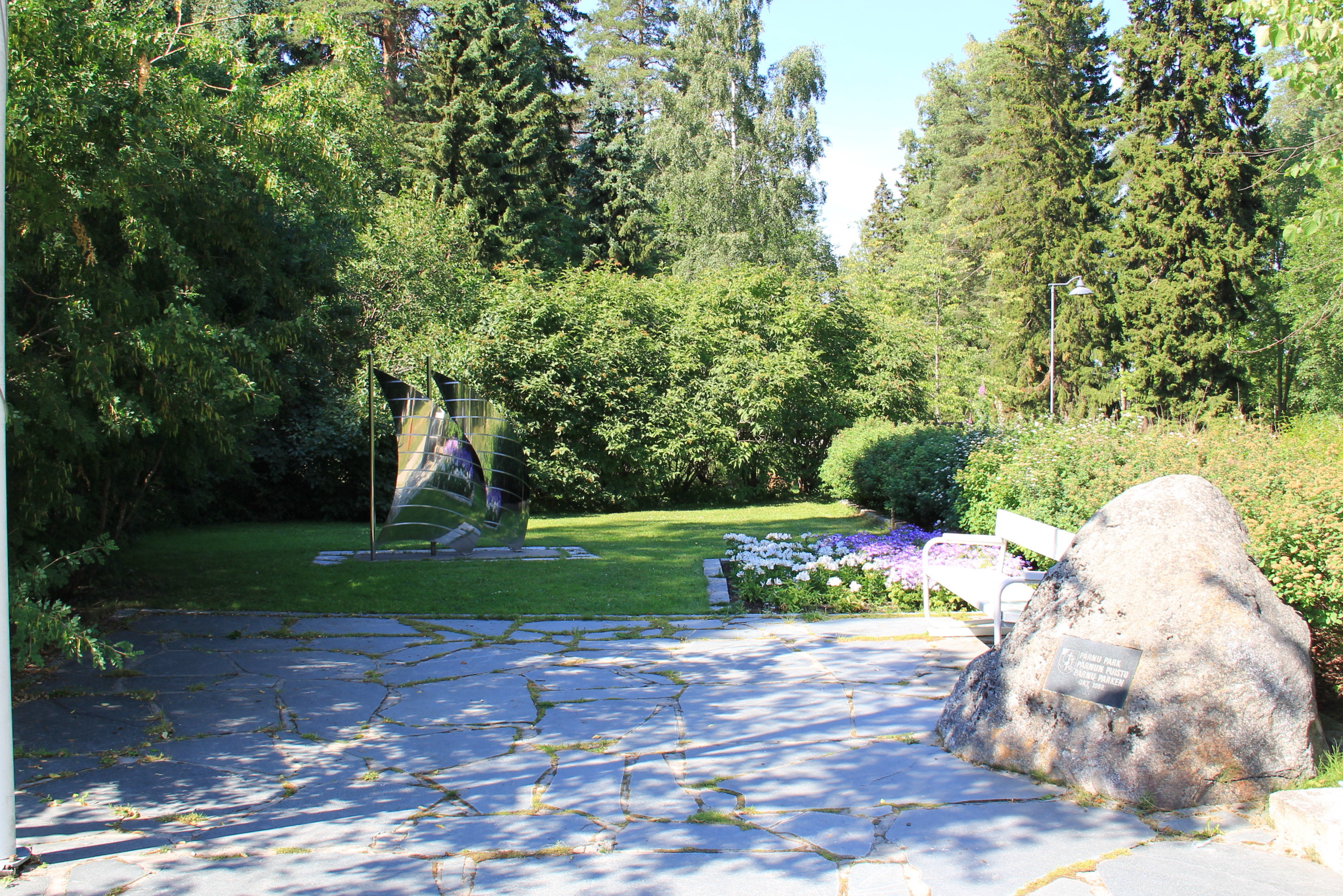 Pärnu Park area in Hietalahti Park, Vaasa, Finland, dedicated to Vaasa's sister city Pärnu in Estonia. - Background sculpture Kaks purje ("Two sails") by Rait Pärg, unveiled in 2011.